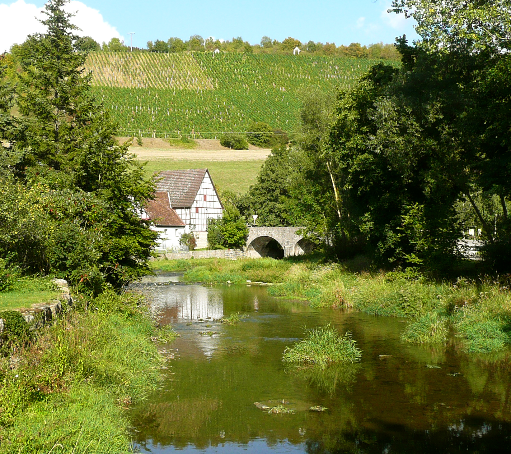 The Tauber and vineyards in Tauberzell